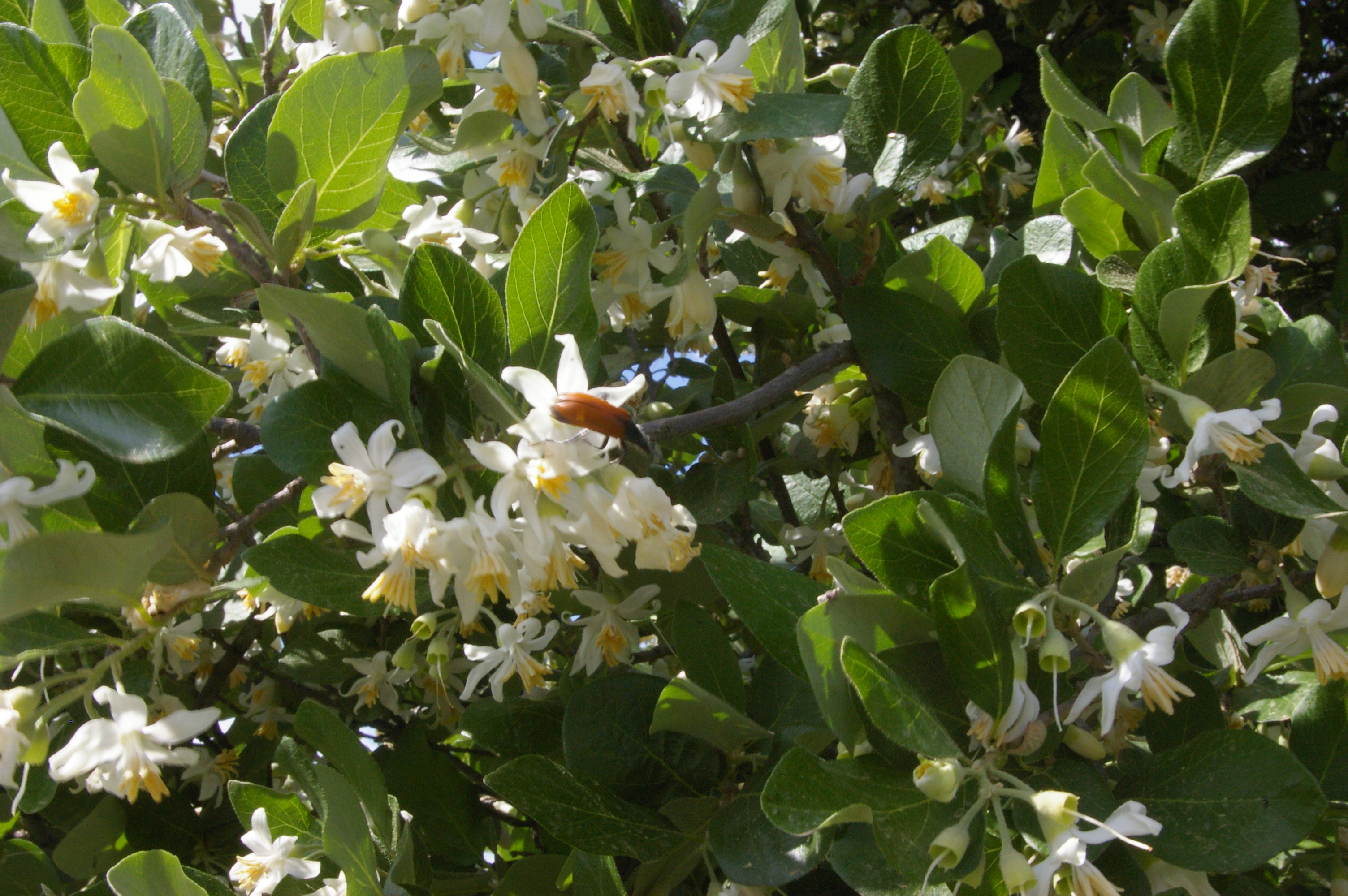 Styrax officinalis